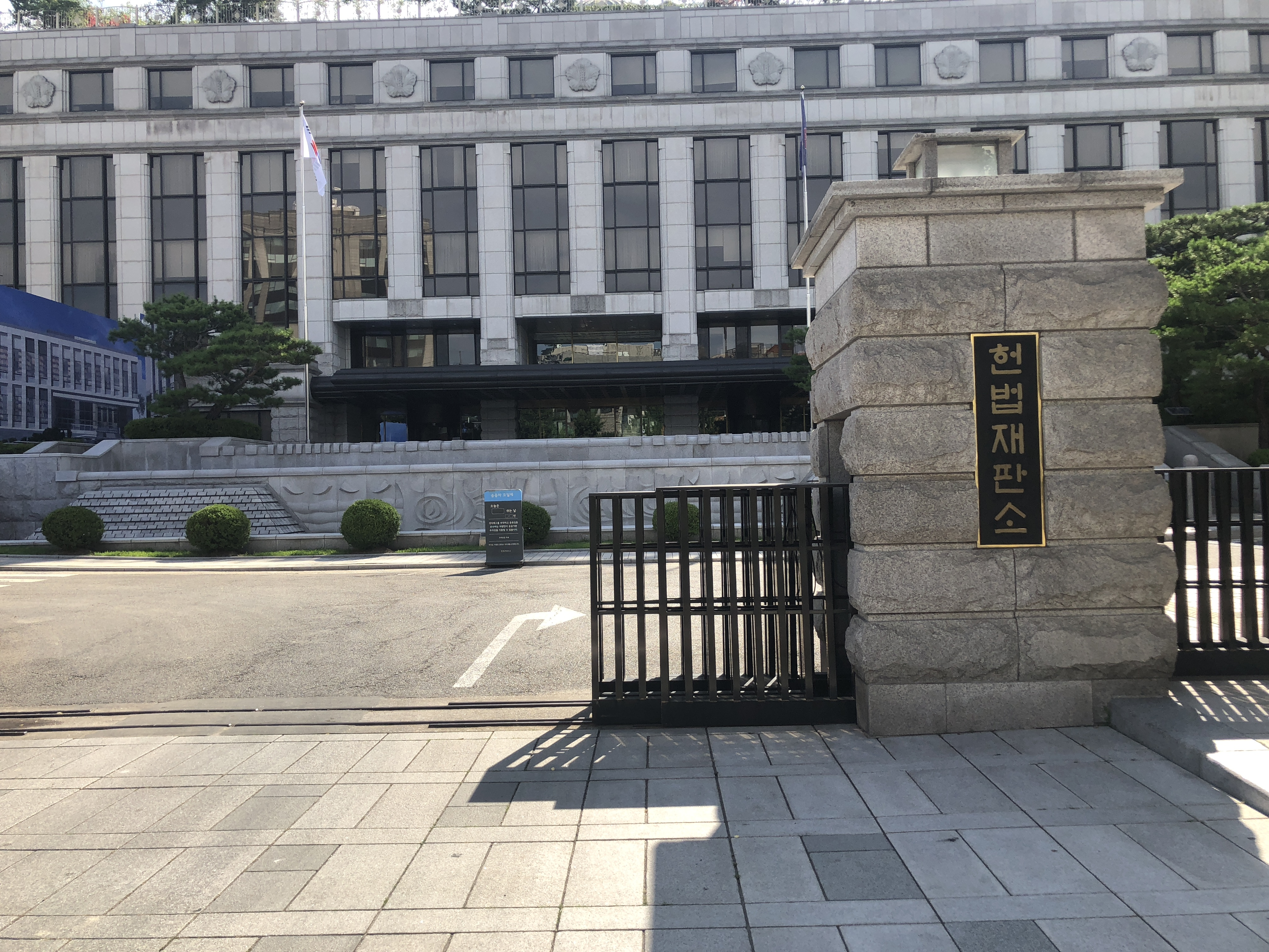 Constitutional court of Korea